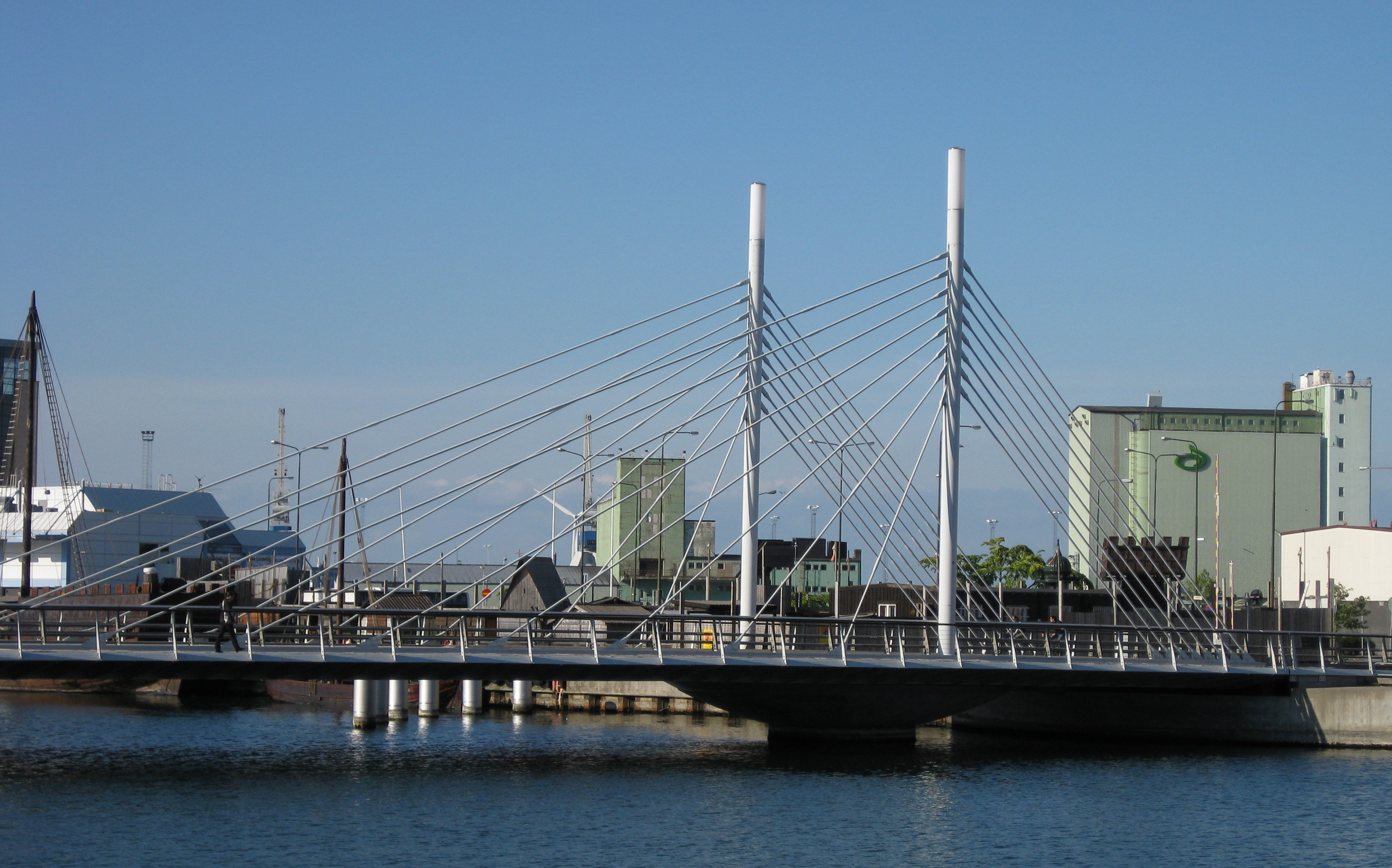 The University bridge in Malmö, Sweden